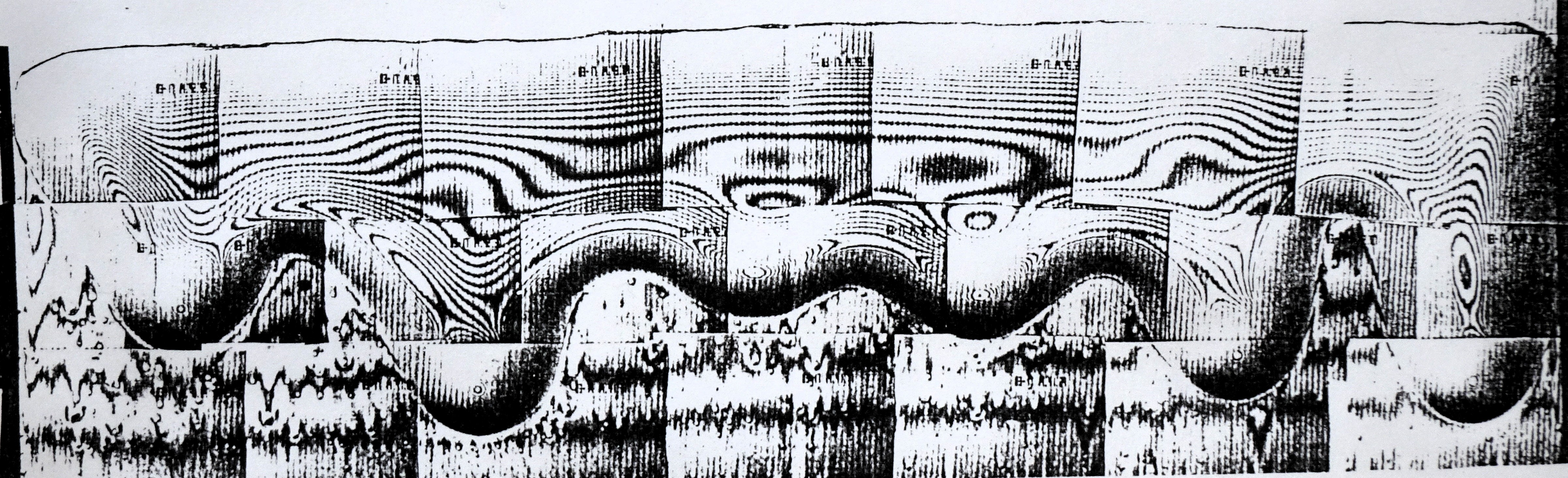 In this photograph (Laboratoire de Physique de la Matière Condensée, Collège de France, 1999) we see a bulge of liquid. It rises on a solid plate by thermal Marangoni effect. Black and shiny fringes are fringes of equal thickness, obtained through interference from a Laser beam. The liquid front at the top is an undercompressive shock, similar to the shocks observed by Fanton and Cazabat and by Ludviksson and Lightfoot. Below is another type of undercompressive shock, a reverse one. Here it is unstable and gives birth to tears. It is theoretically stable, but the experimental method didn't allow to observe this stability. The same undercompressive shock has been observed by Bertozzi a few years later, with a better method.